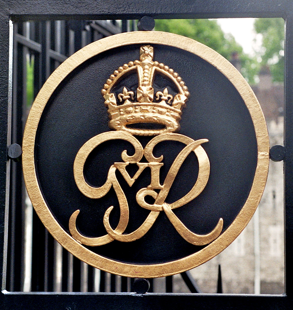 London Tower: Royal cypher of King George VI at one of the Tower gates